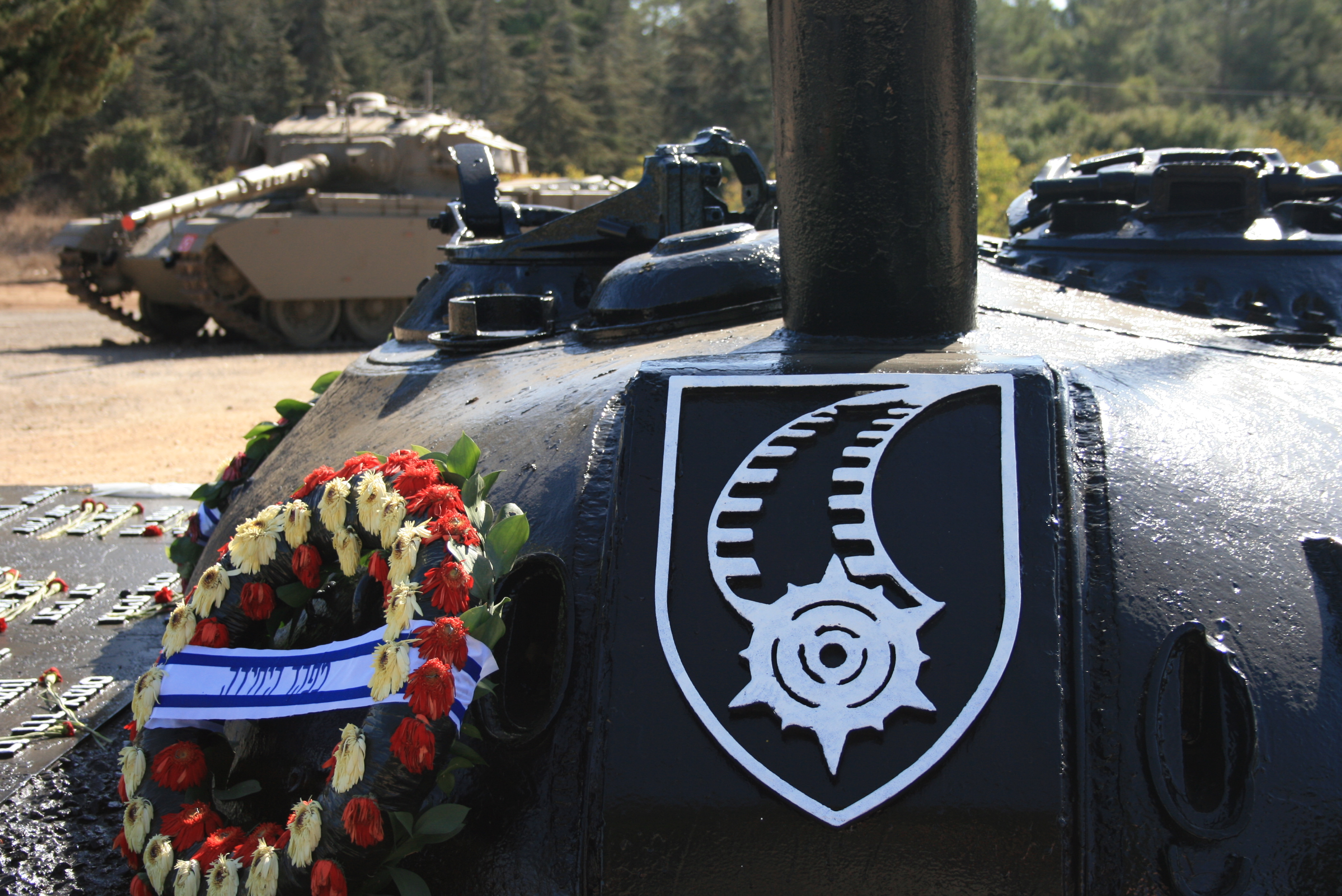 679th Brg. Memorial, Golan Heights, Israel.